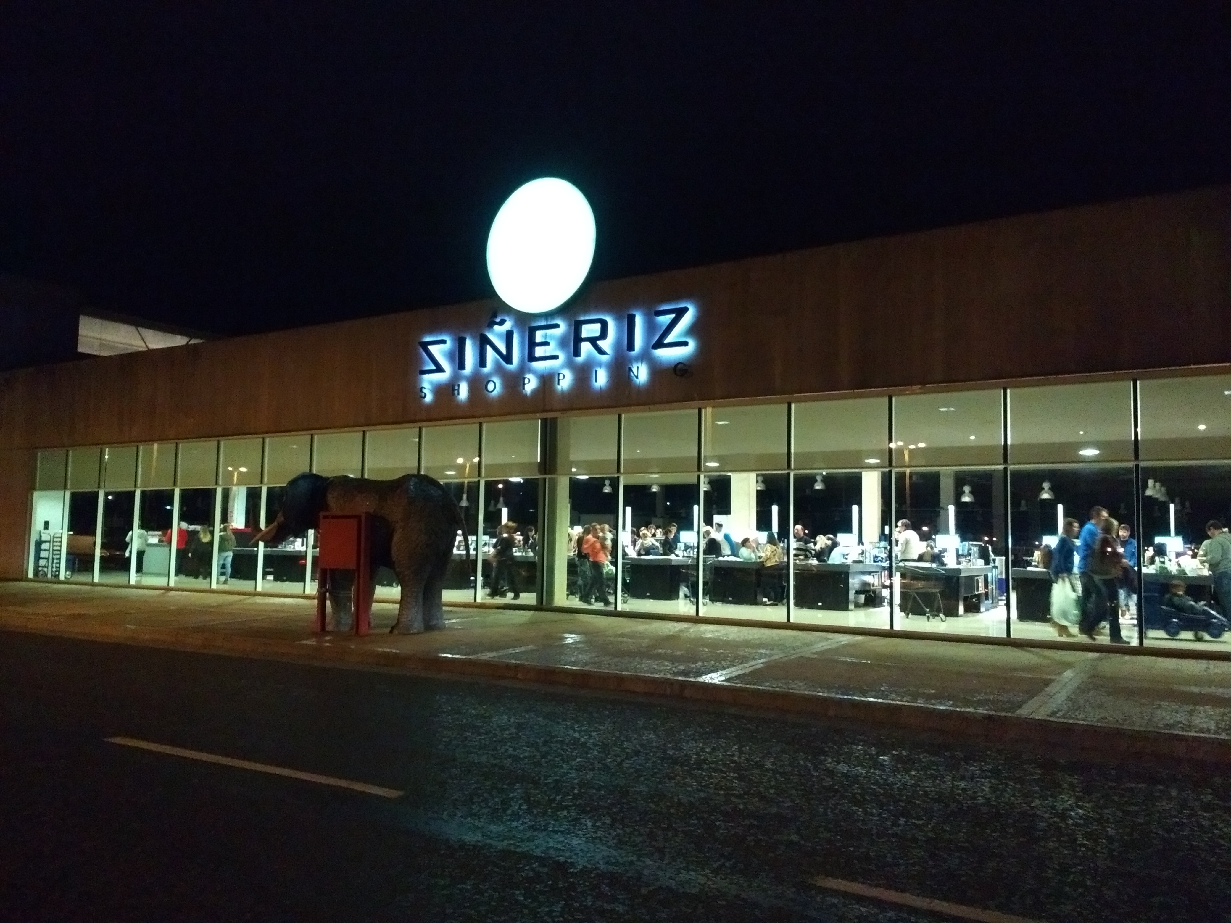 Siñeriz Shopping, Rivera, Uruguay